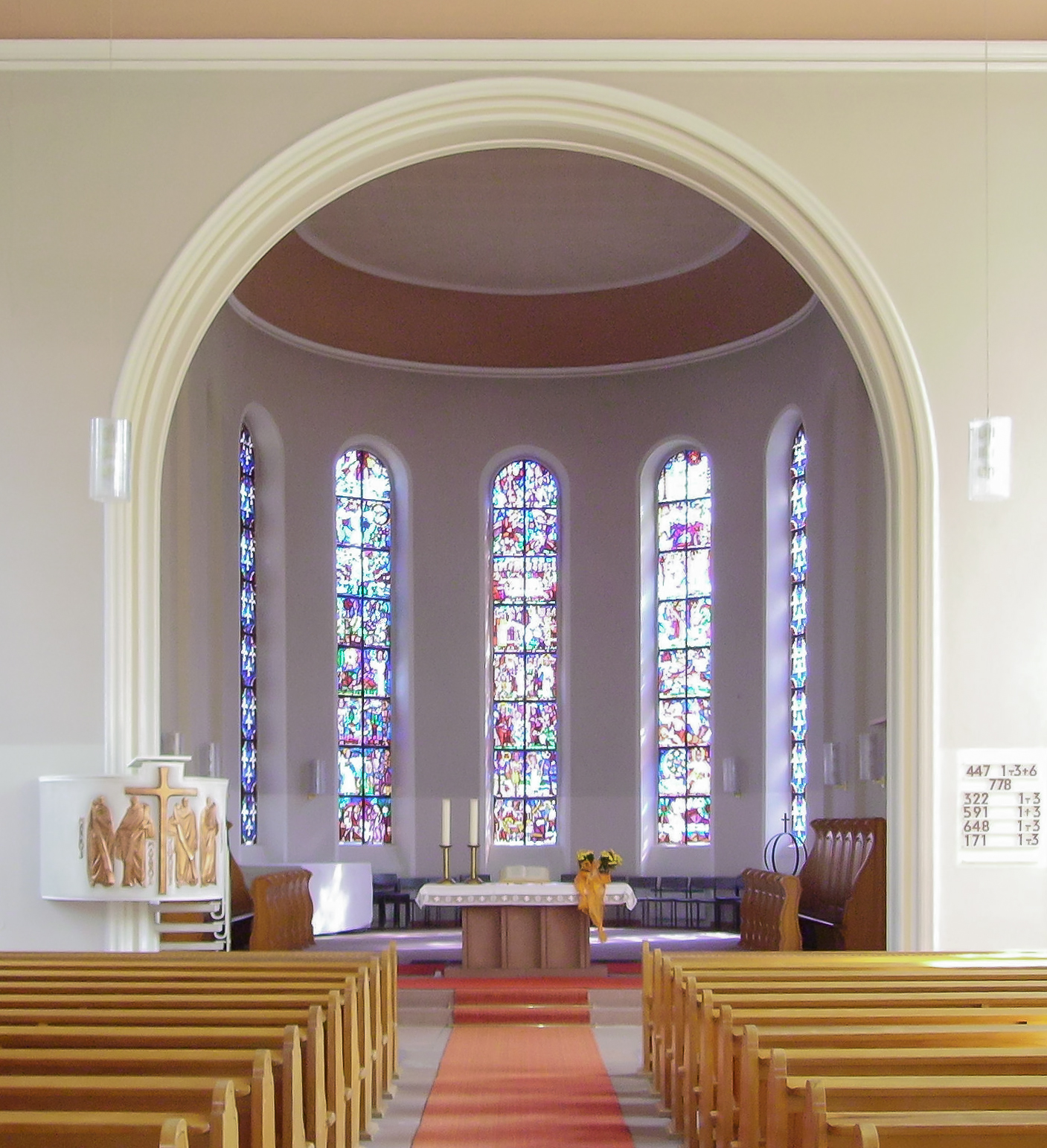 Interieur of the protestant church of Annweiler am Trifels